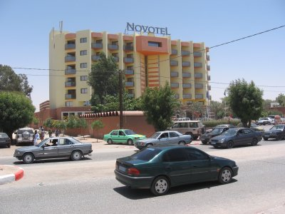 nouakchott novotel